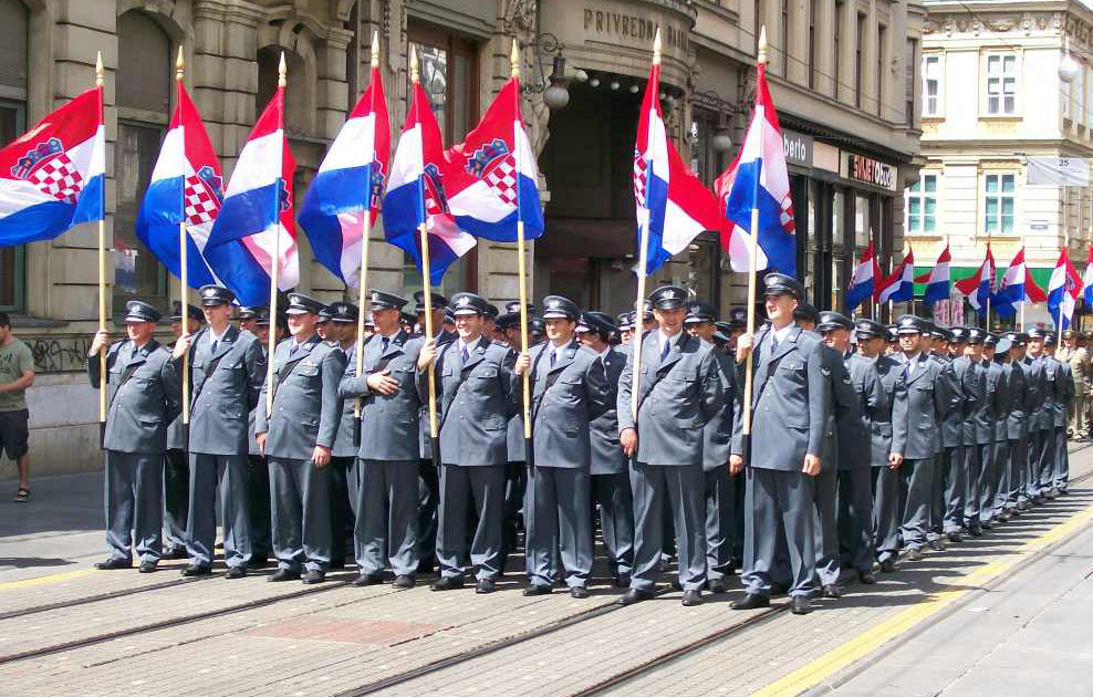 Echelon of members of the Croatian air force (Statehood Day, 2007)